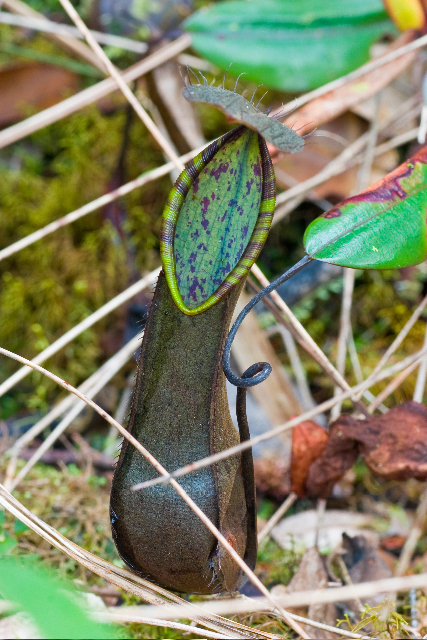 Nepenthes tentaculata photographed on Mount Tambuyukon, Borneo (Alastair Robinson, May 2007) - lower pitcher.